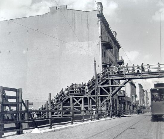 The wooden footbridge over Hohensteiner Straße (act. Zgierska Street) that joined the two parts of the Lodz ghetto during Nazi occupation of Poland. The street itself was not part of the ghetto.